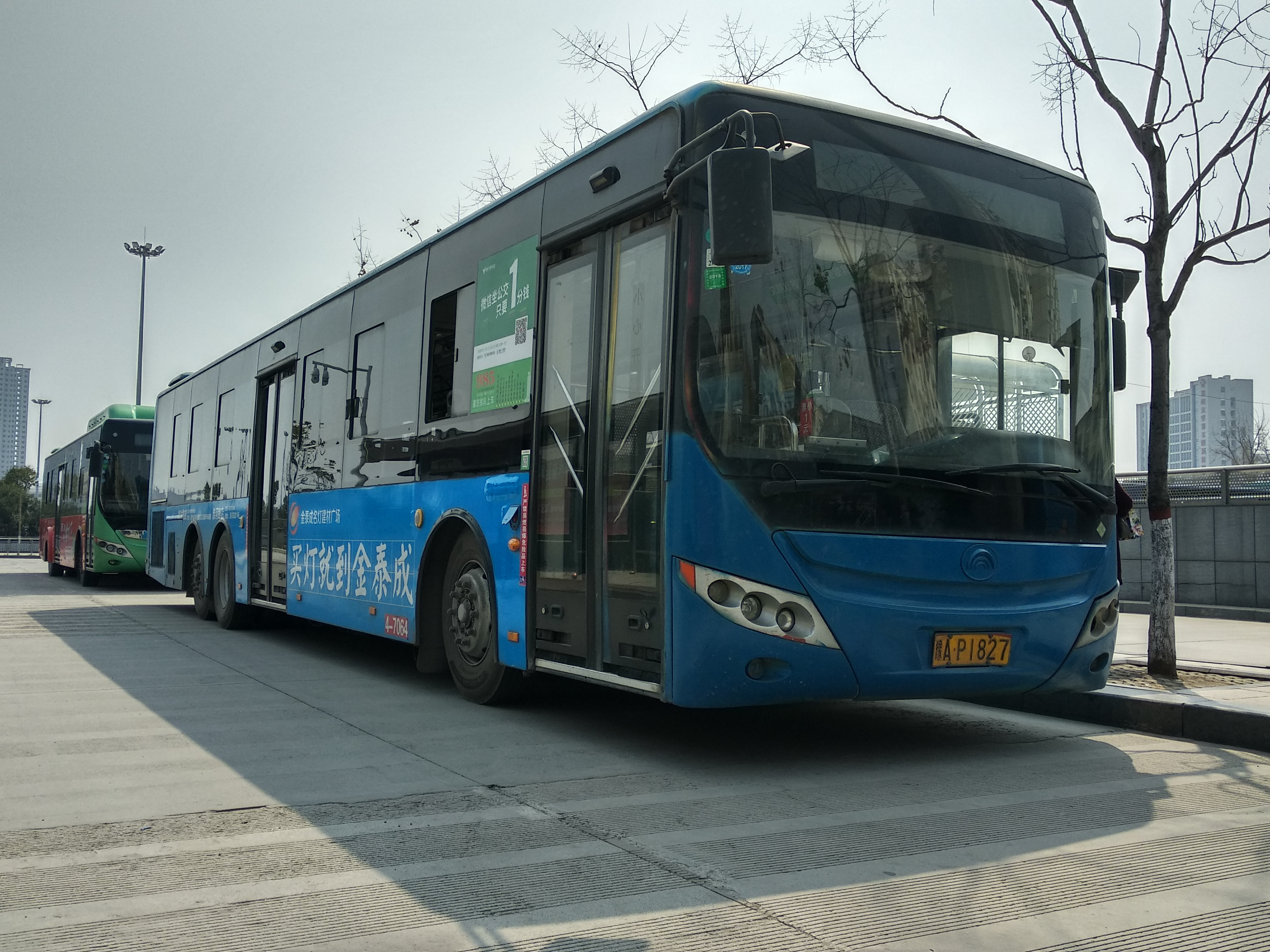 A Yutong ZK6140CHEVG1 hybrid bus serving on Zhengzhou Bus Route 985. There is an advertisement saying "You only need to pay 0.01 CNY for taking a bus via WeChat Pay" on one of its windows. Meanwhile, you can take a bus for free once per day using Alipay until March 31, 2018. Seems the two giants are fighting for more market share in Zhengzhou.